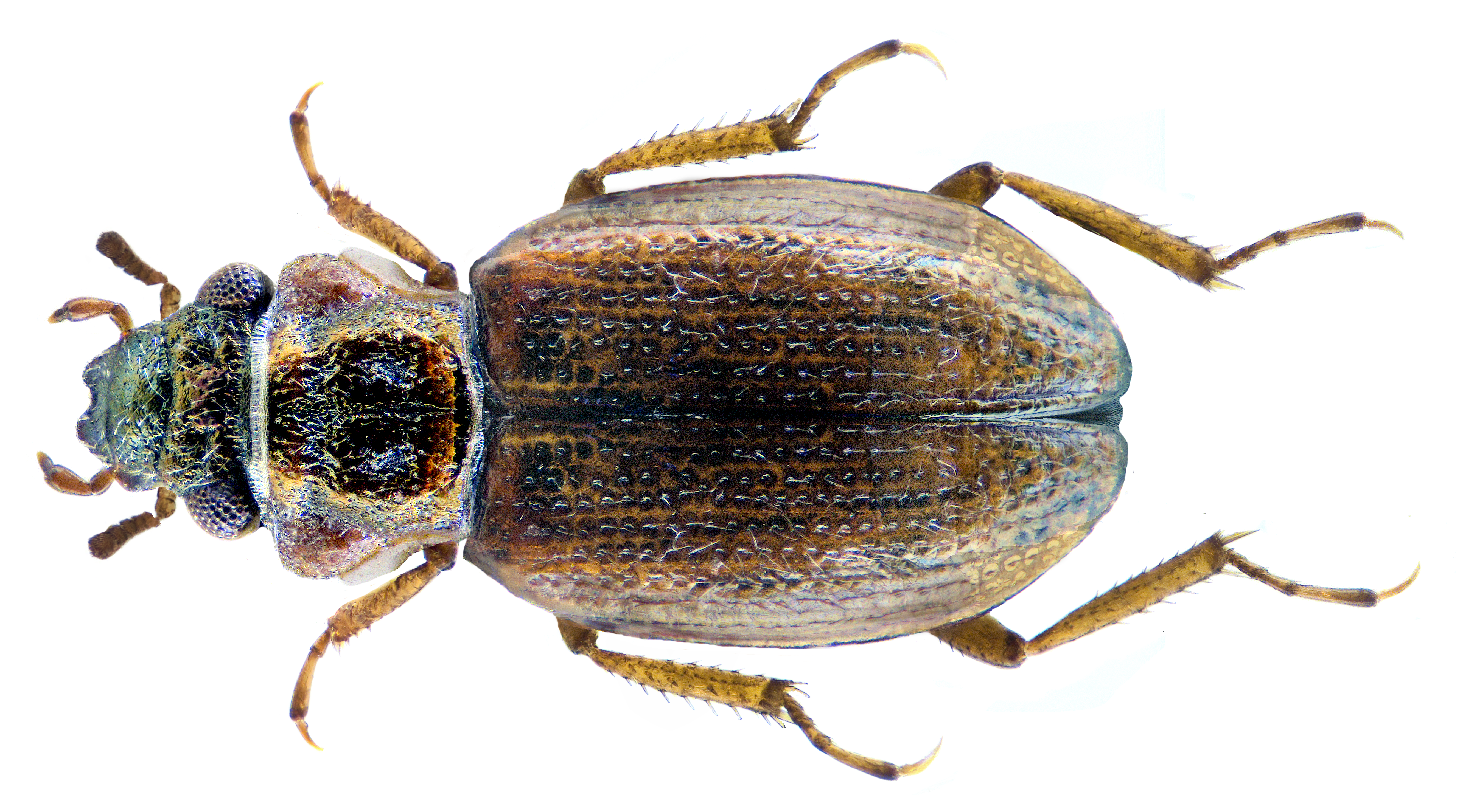 Family: Hydraenidae Size: 1.6 mm Location: Italy, NW Latium, Fiume, Fiora an Ponte S.Pietro leg. O.Jaeger, 10.VIII.1990; det. M.Jaech; Coll. A.Skale Photo: U.Schmidt, 2017